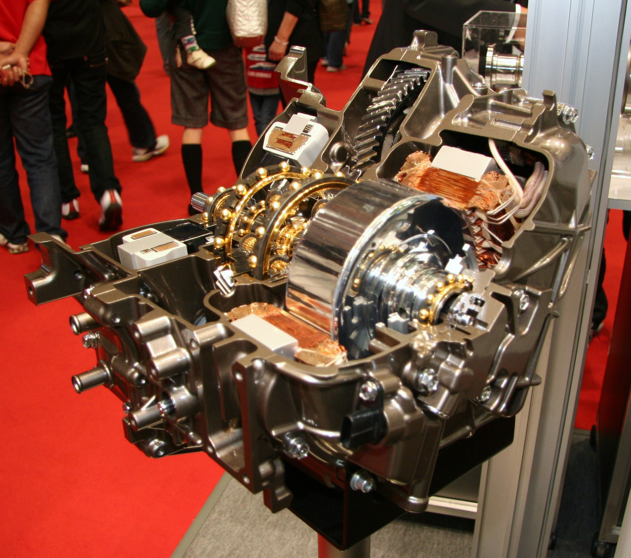 Electronically-controlled variable transmission for Toyota Prius